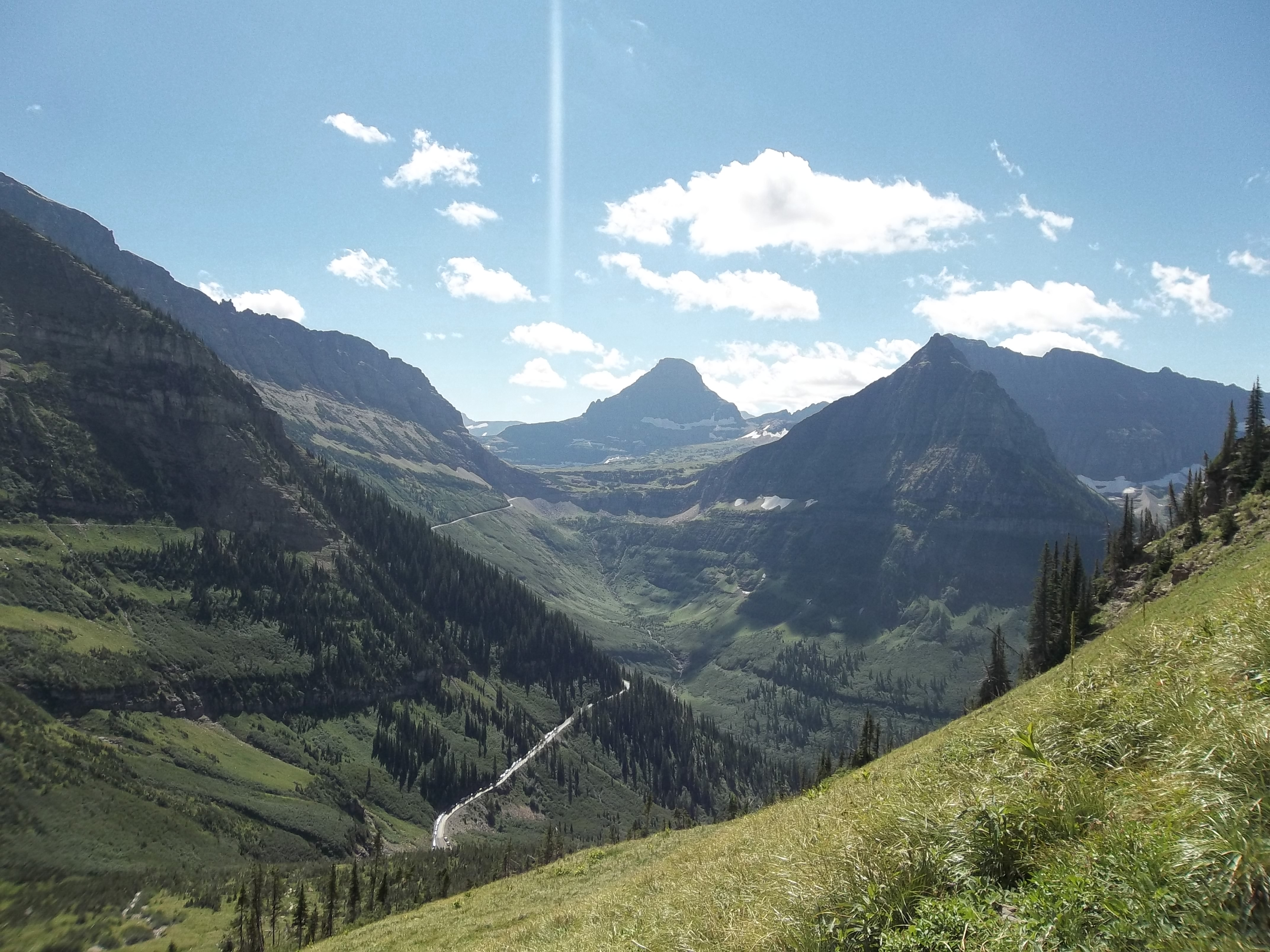 Glacier National Park, Going-to-the-Sun Road can be seen with Logan Pass in the distance